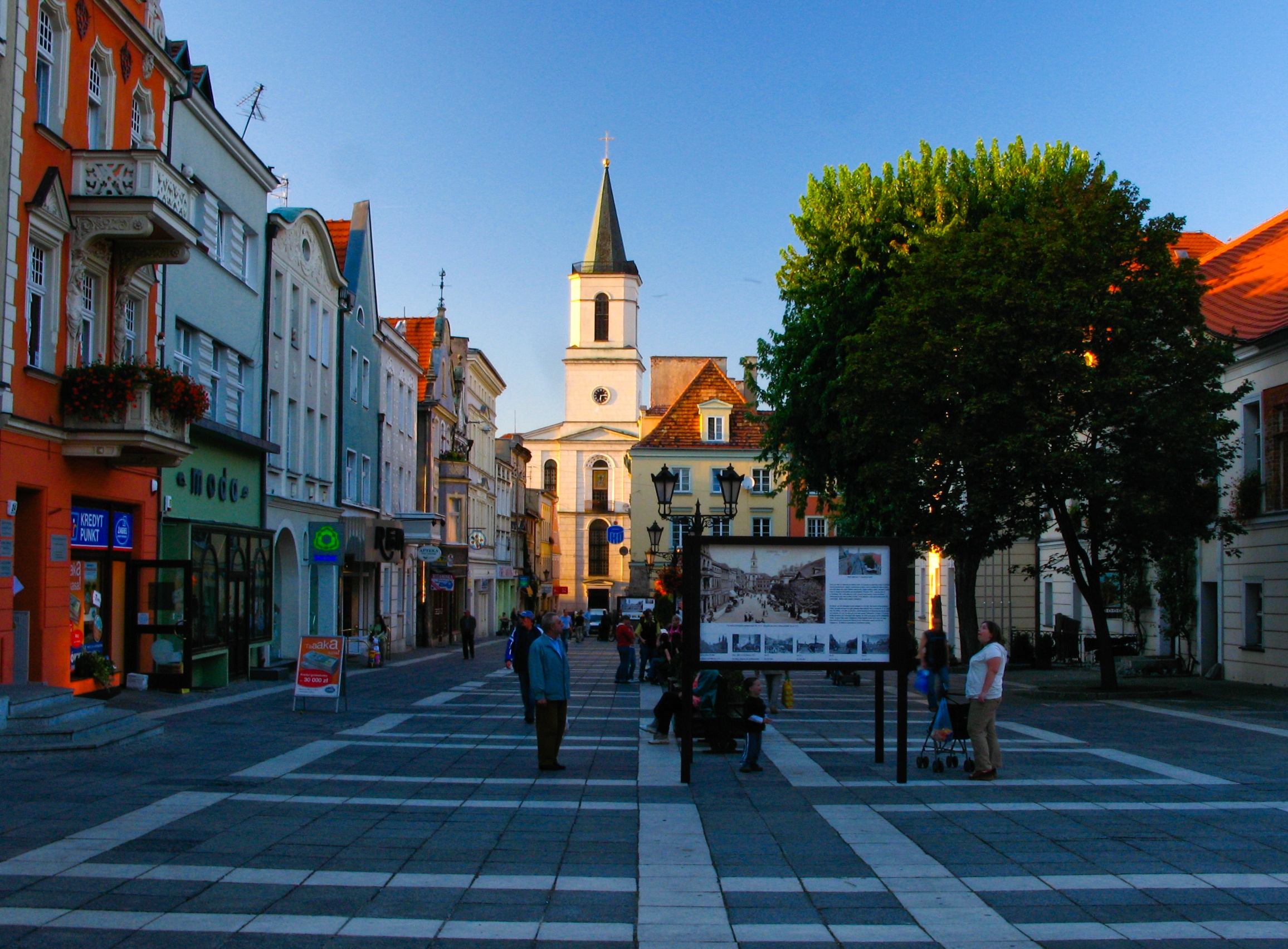 Old Market Square with board which shows its pre-war look